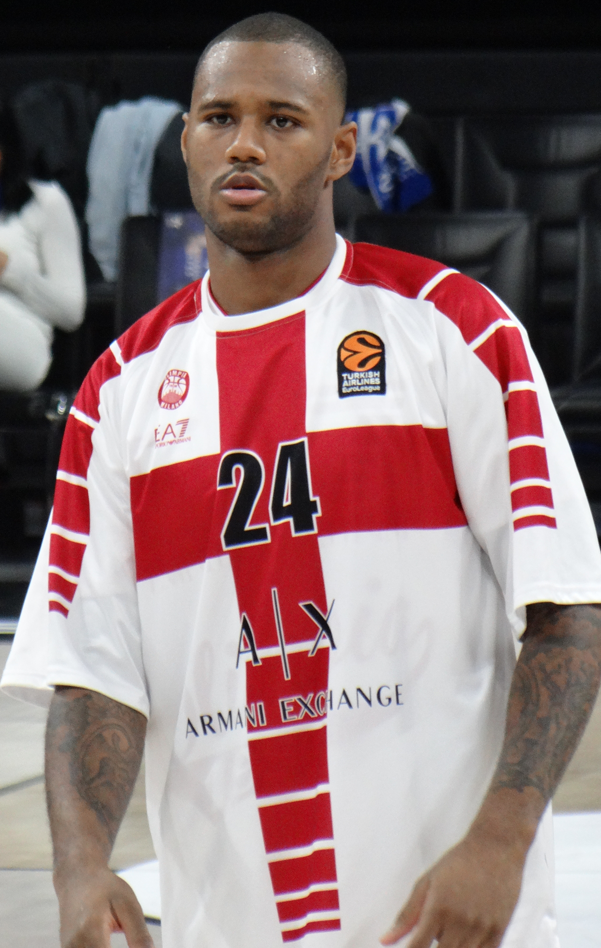 Amath M'Baye 24 AX Armani Exchange Olimpia Milan 20171130